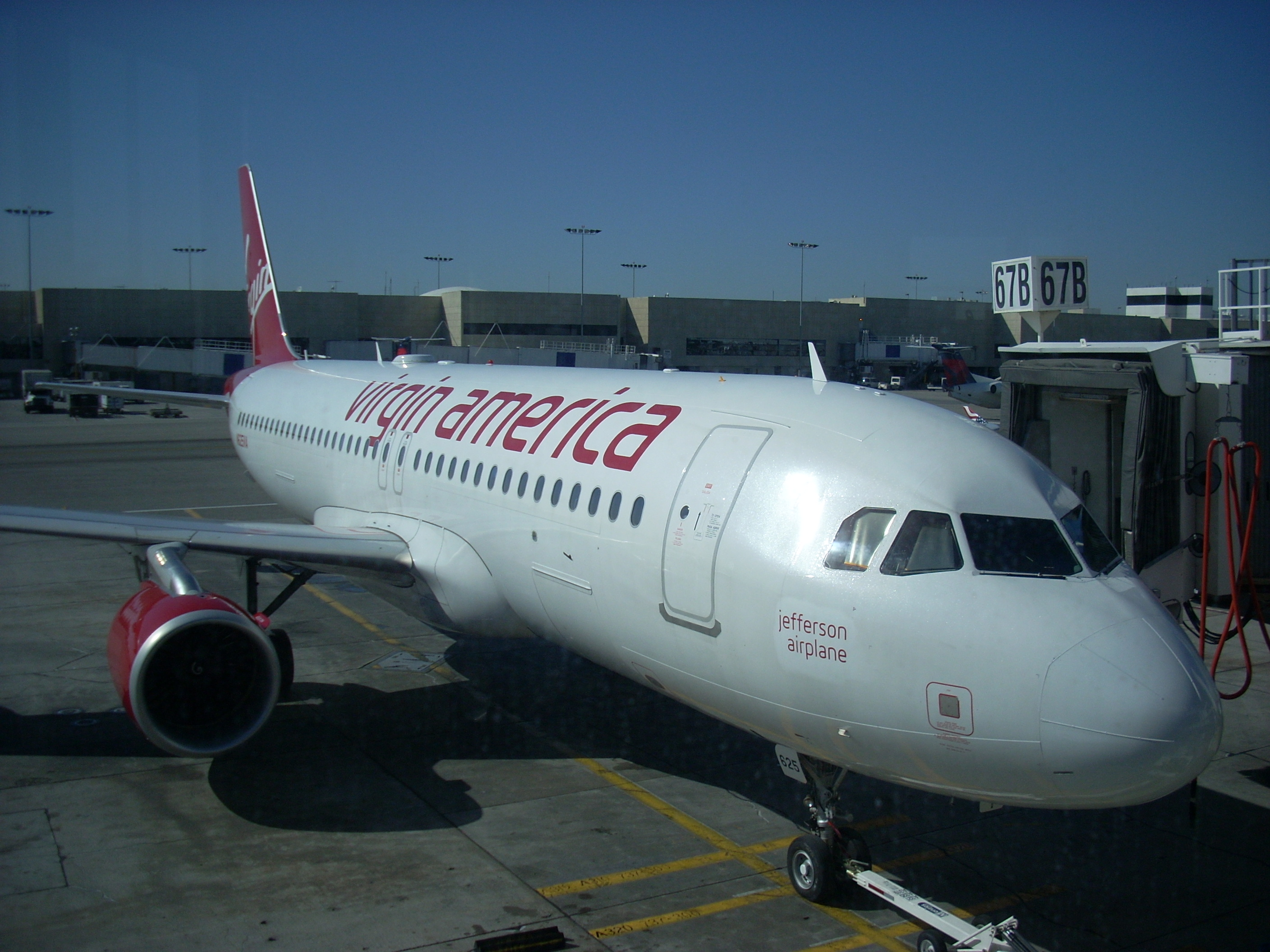 Virgin America Airbus A320-214 (N625VA named "Jefferson Airplane") at Los Angeles International Airport